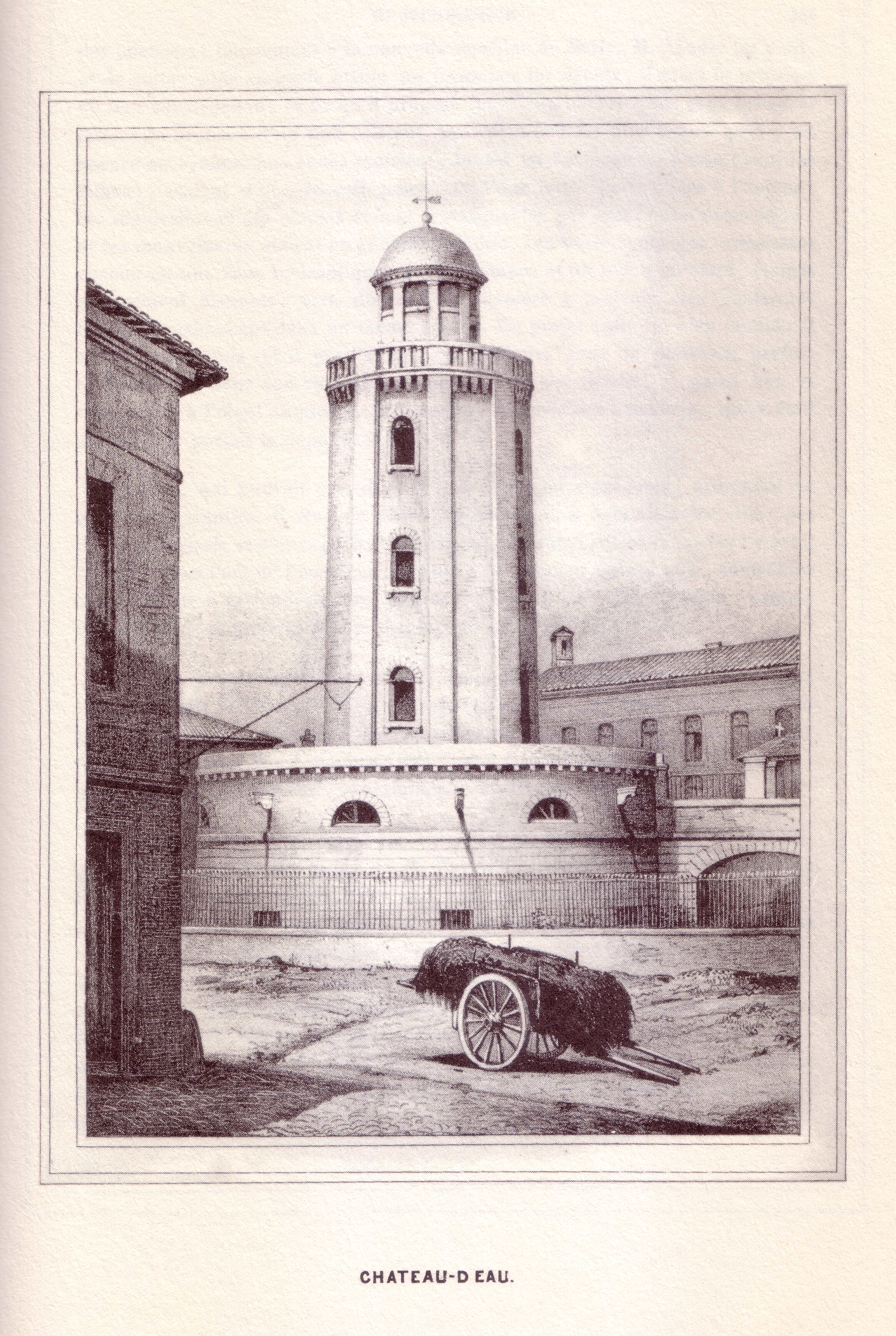 19th century drawings of Toulouse